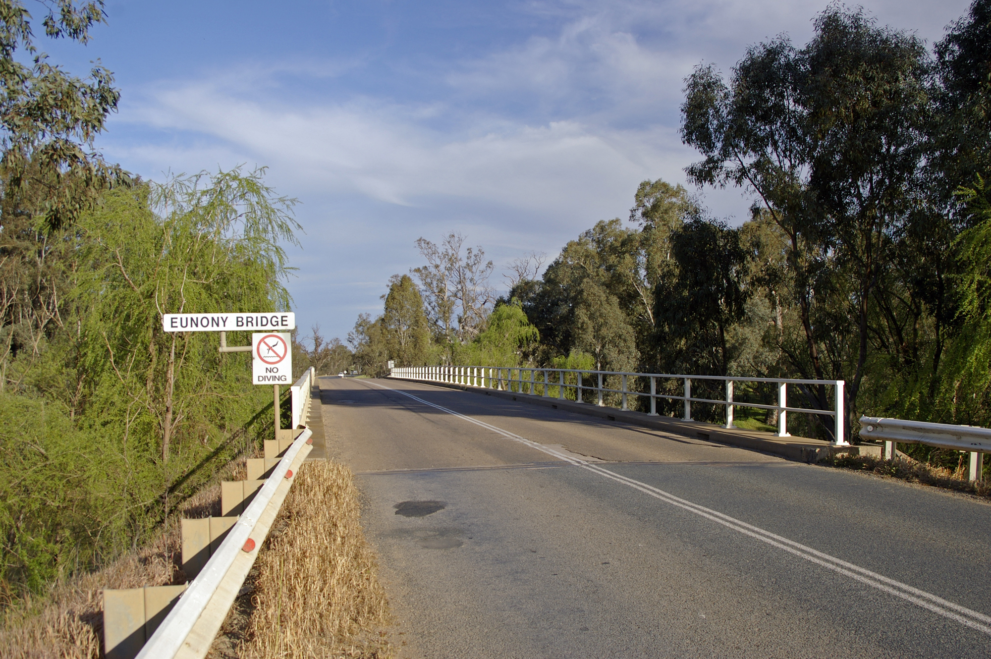 Eunony Bridge over the Murrumbidgee River viewed from Wagga Wagga rural locality of Eunanoreenya.